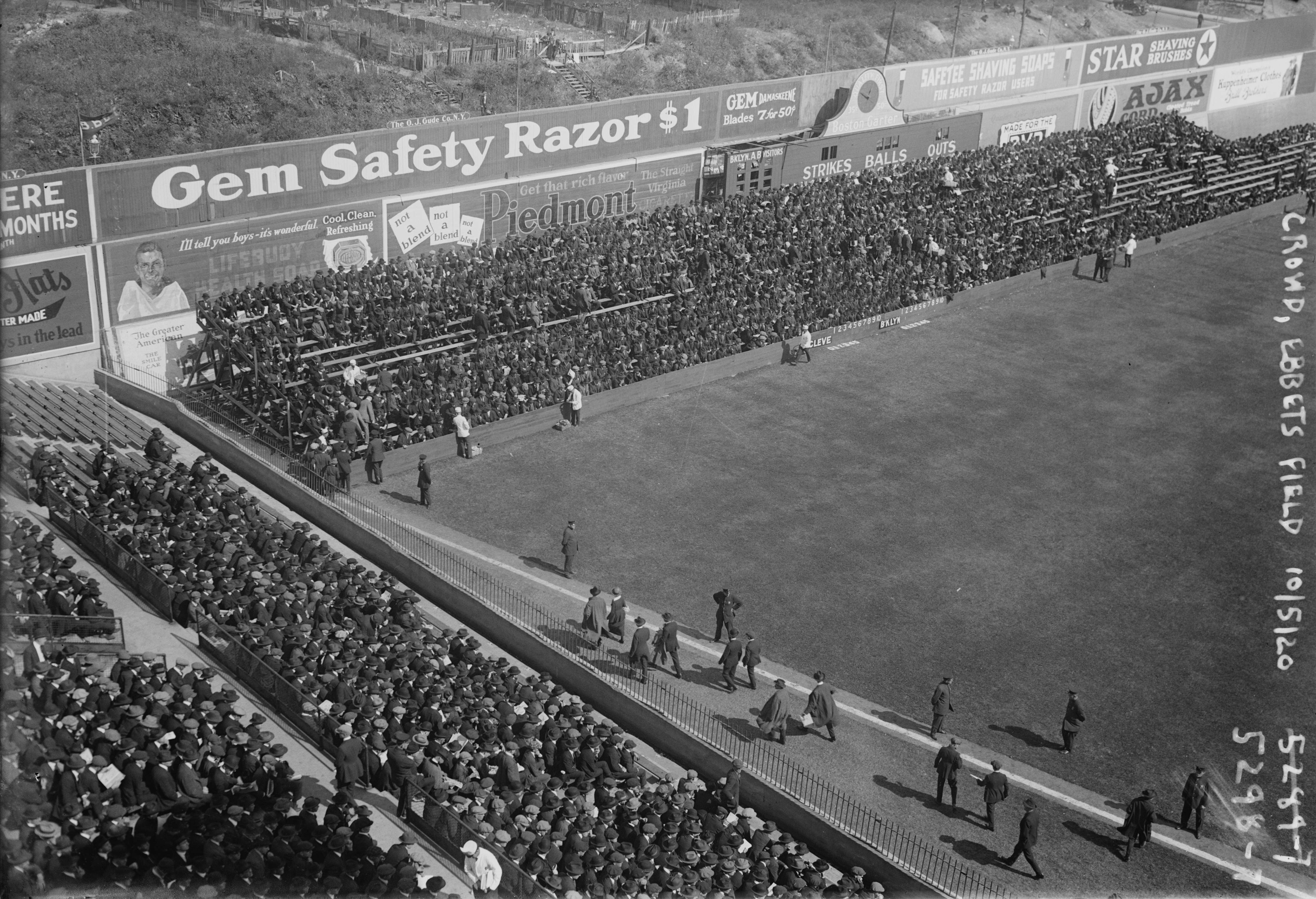 Crowd at Ebbets Field for Game 1 of the 1920 World Series against the Cleveland Indians - October 5, 1920.